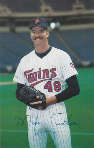 Professional baseball player Mike Smithson